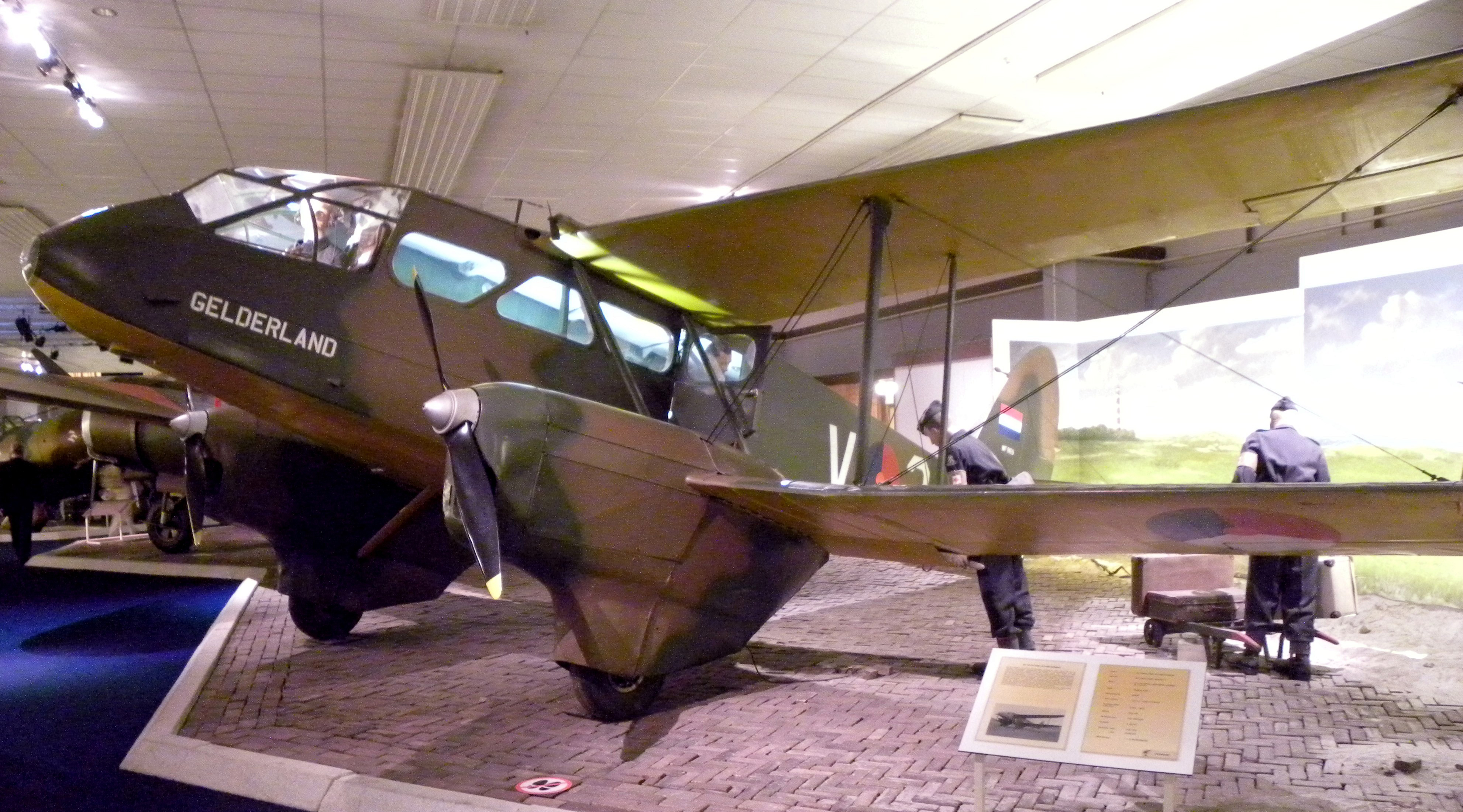 De Havilland DH.89B Dominie, seen at militare luchtvaart museum Soesterberg. The Dominie is the military version of De Havilland Dragon Rapide.